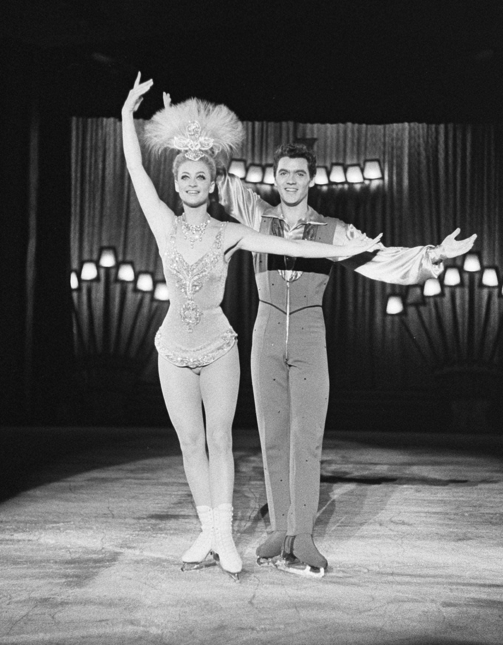 Marika Kilius (Hans-Jürgen Bäumler behind her)